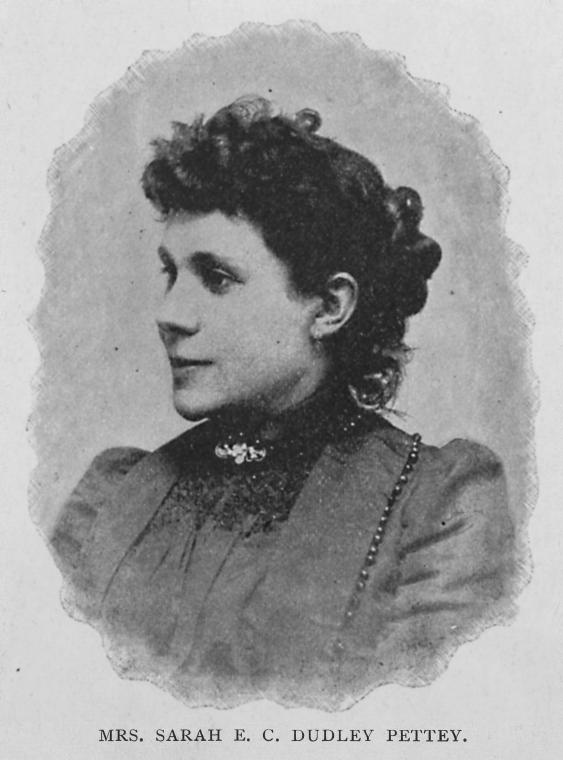 still image of Mrs. Sarah E.C. Dudley Pettey